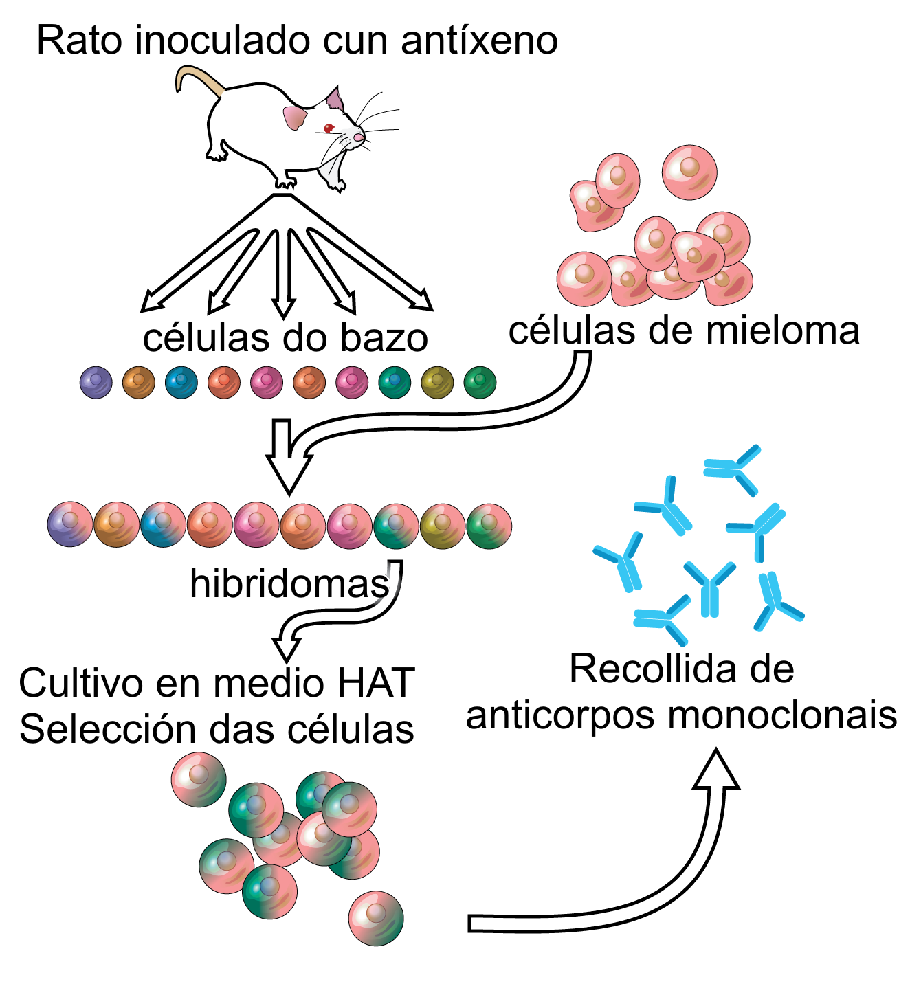 Overview of hybridoma technology and monoclonal antibody creation